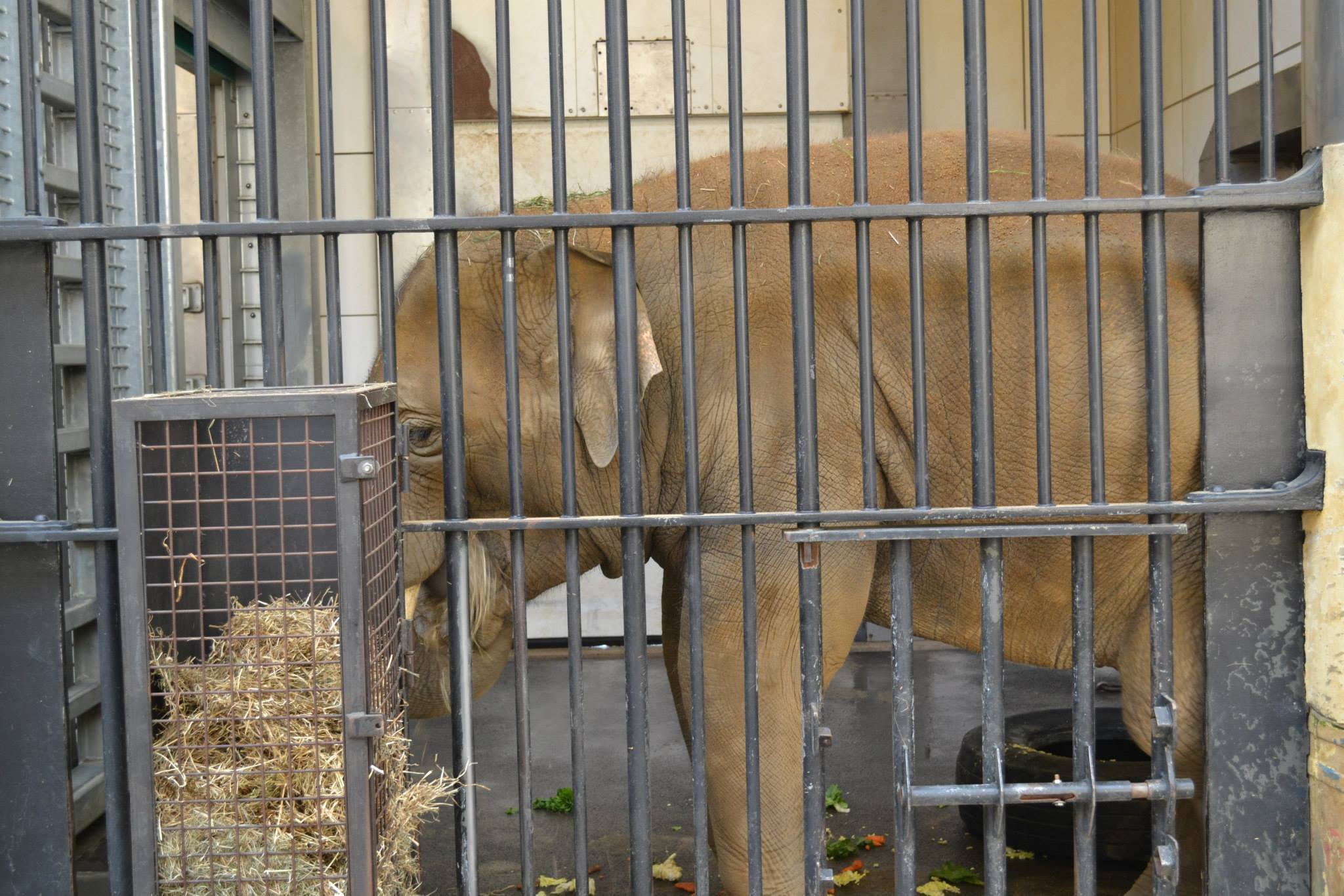 Giraffe in ZOO Antwerpen